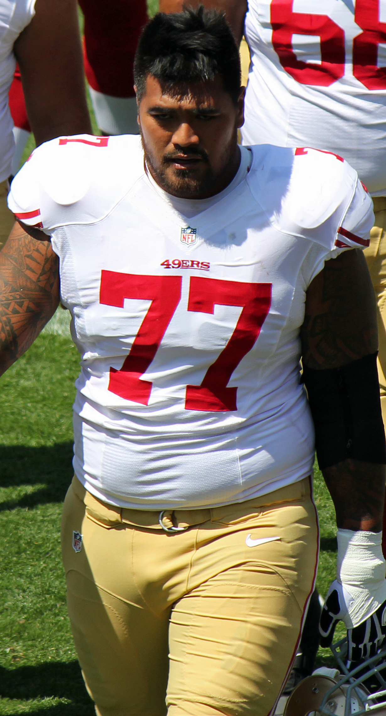 Mike Iupati, a player on the National Football League.